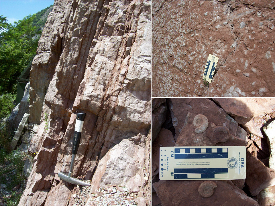 Ammonitico Rosso facies (Domerian) from Italy (Lombardy). Left: stratal pattern; right: stratal surface (upper); some ammonites (lower) referable to Arietitacea.